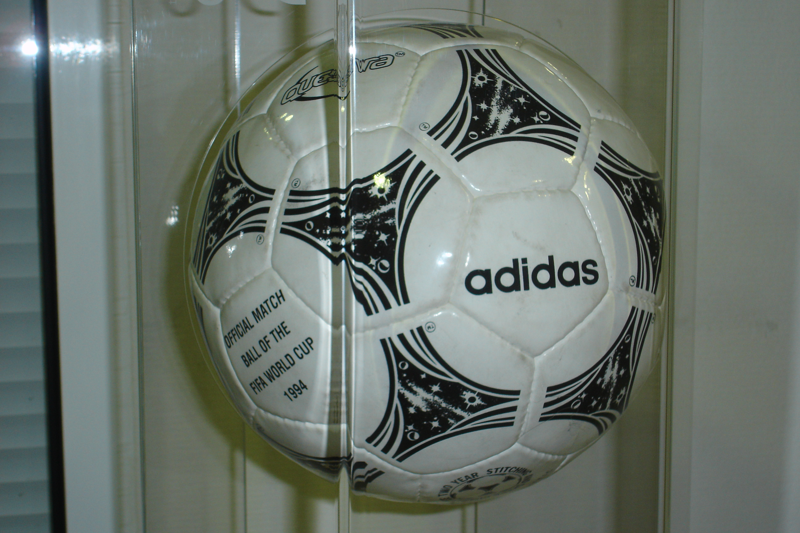 Questra USA by Adidas - the official match ball of 1994 FIFA World Cup in USA